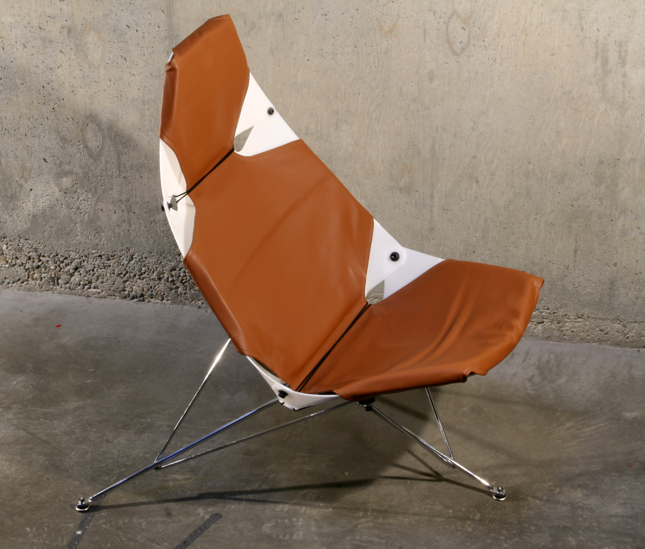 2008 photograph of the mid-century modern Bikini Chair (designed in 1949, metal, moulded plastic, leather) by architect Wendell Lovett, part of the collection of the University of Washington (Seattle) architecture library.